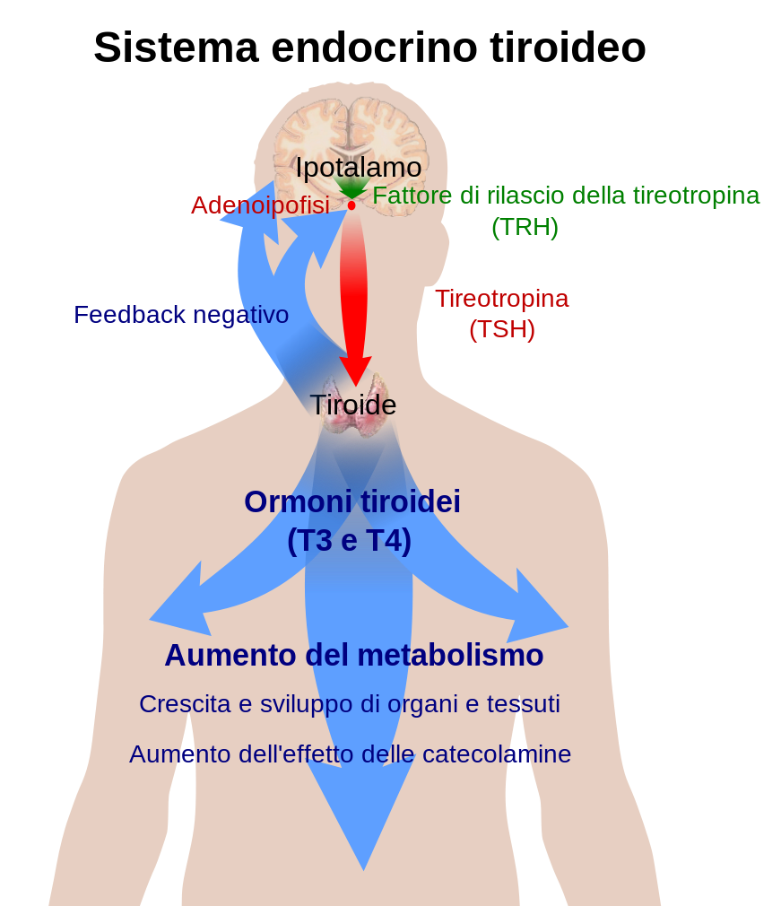 Overview of the thyroid system (See Wikipedia:Thyroid). To discuss image, please see Talk:Human body diagrams References Figure 1 in: Hill RN, Crisp TM, Hurley PM, Rosenthal SL, Singh DV (August 1998). "Risk assessment of thyroid follicular cell tumors". Environ. Health Perspect. 106 (8): 447–57. PMID 9681971. PMC: 1533213. Figure 1 in: Lindström G, Hooper K, Petreas M, Stephens R, Gilman A (March 1995). "Workshop on perinatal exposure to dioxin-like compounds. I. Summary". Environ. Health Perspect. 103 Suppl 2: 135–42. PMID 7614935. PMC: 1518837. GPnotebook: Thyroid hormone function Retrieved on Nov 25, 2009. Cite: " Both T3 and T4: *increase cell metabolism *1facilitate normal growth *2facilitate normal mental development *3increase the local effects of catecholamines